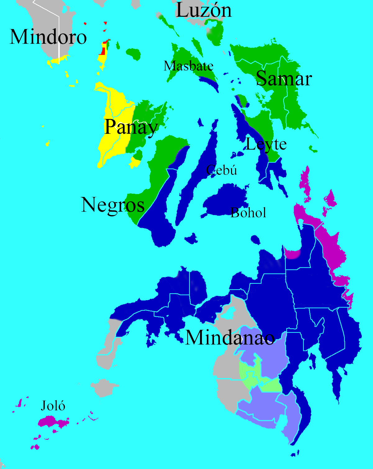 This is a map outlining the regions in the central and southern Philippines where the Visayan languages are spoken. The regions are color-coded based upon language family. Note that only the Philippines are included in this map despite the fact that Tausug language is also spoken in East Kalimatan (Indonesia) and Sabah (Malaysia). English (en): Legend Asi language Cebuano language and dialects like Boholano Significant minorities of speakers of cebuano Central Visayan languages Significant minorities of speakers of central visayan languages Western Visayan languages Southern Visayan languages Languages of other families Lighter colours denote areas where there are significant minorities of speakers